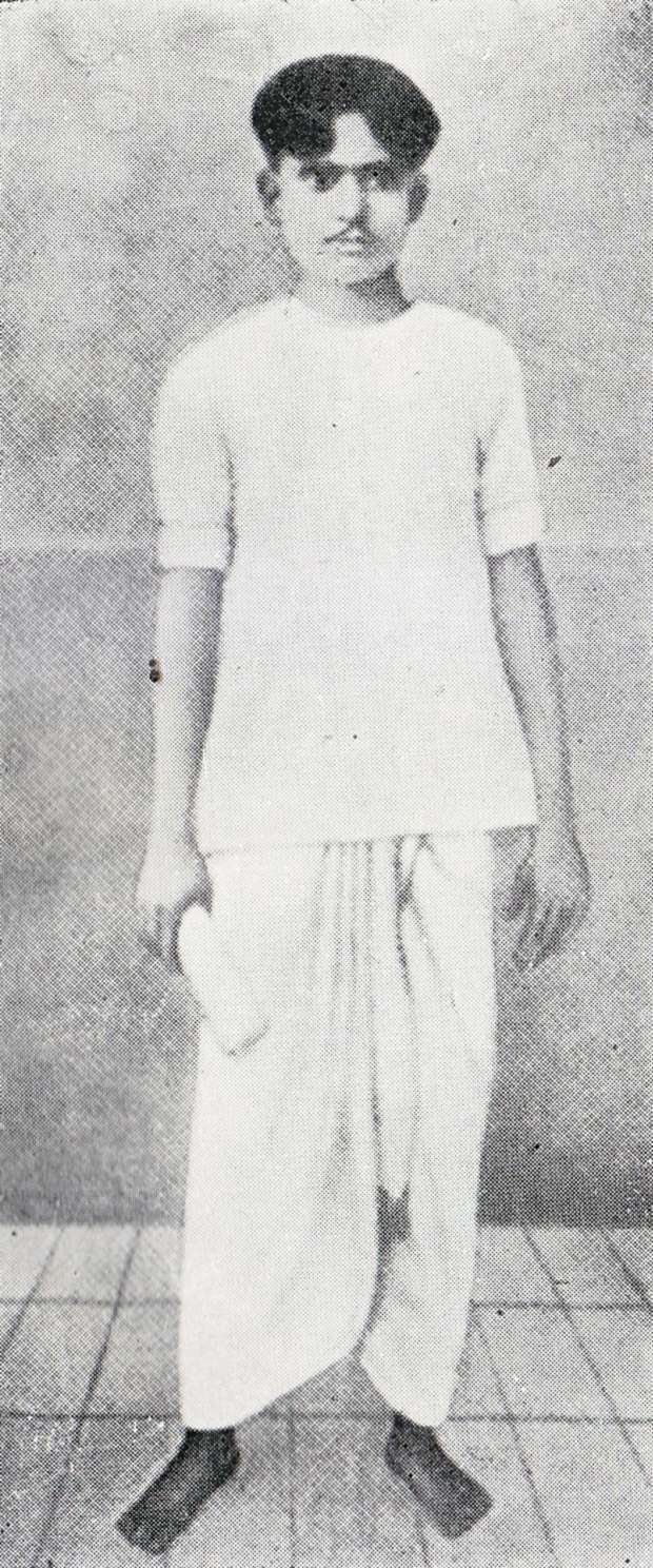 Kazi Nazrul very Young